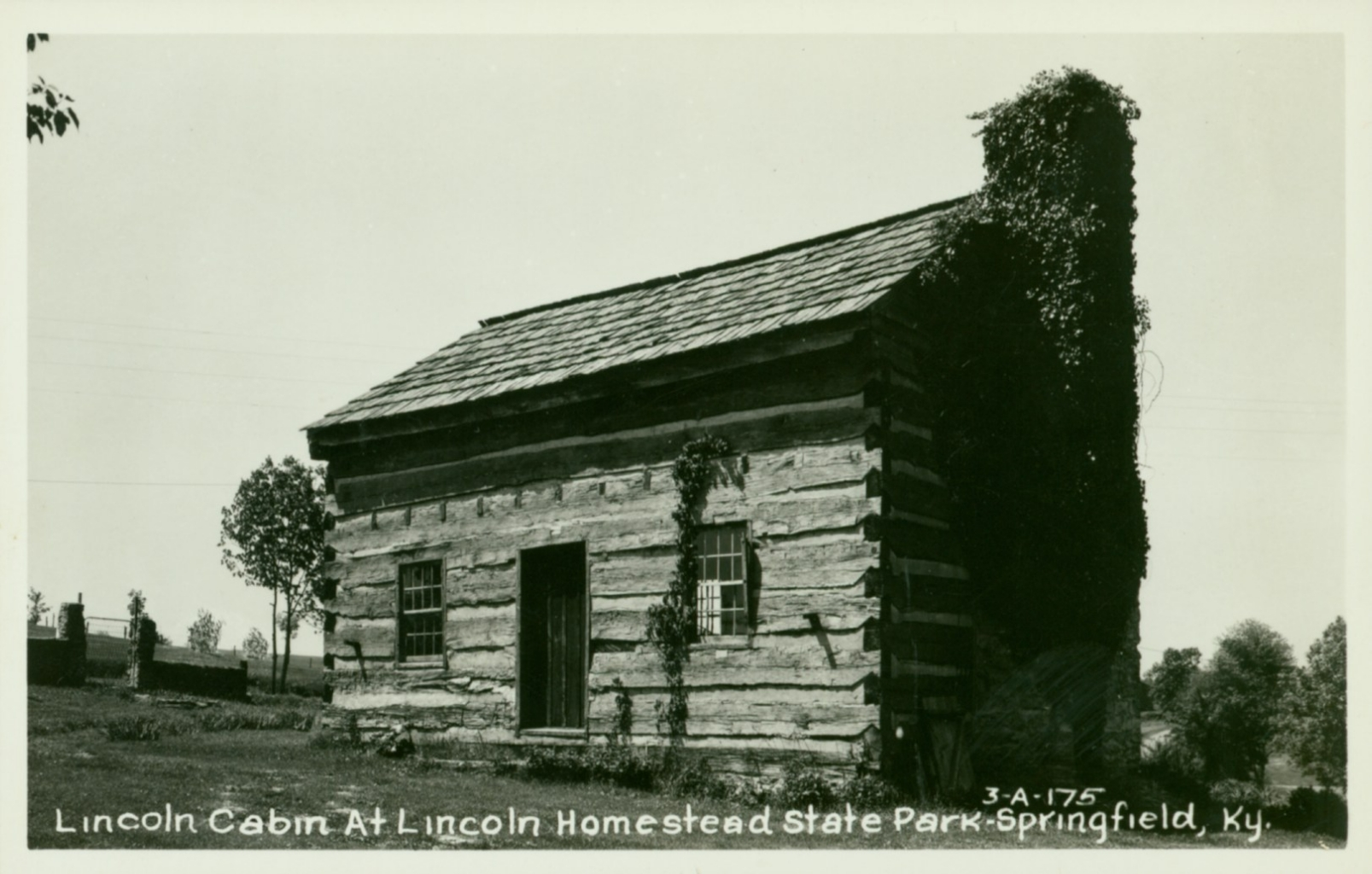 Lincoln Cabin at Lincoln Homestead State Park. Springfield, Kentuck. Kodak Photo Postcard.